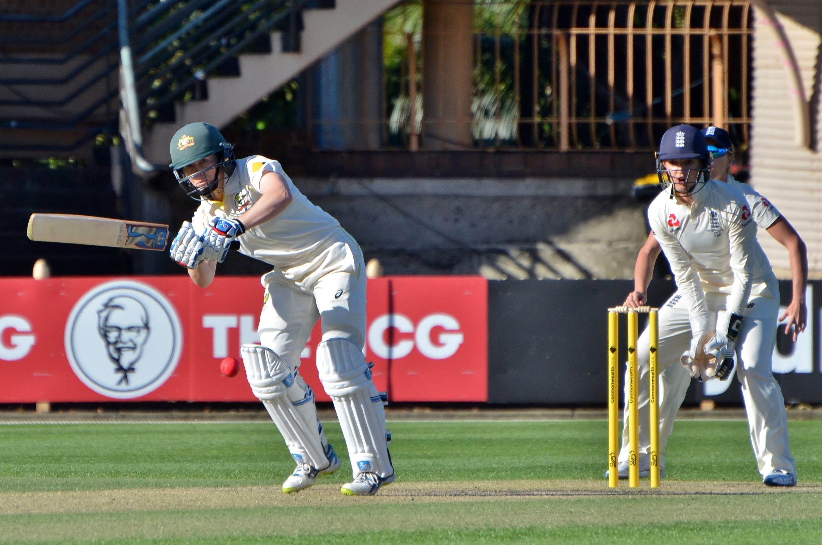 Alex Blackwell batting during the 2017–18 Women's Ashes Test at North Sydney Oval. The wicket-keeper is Sarah Taylor.